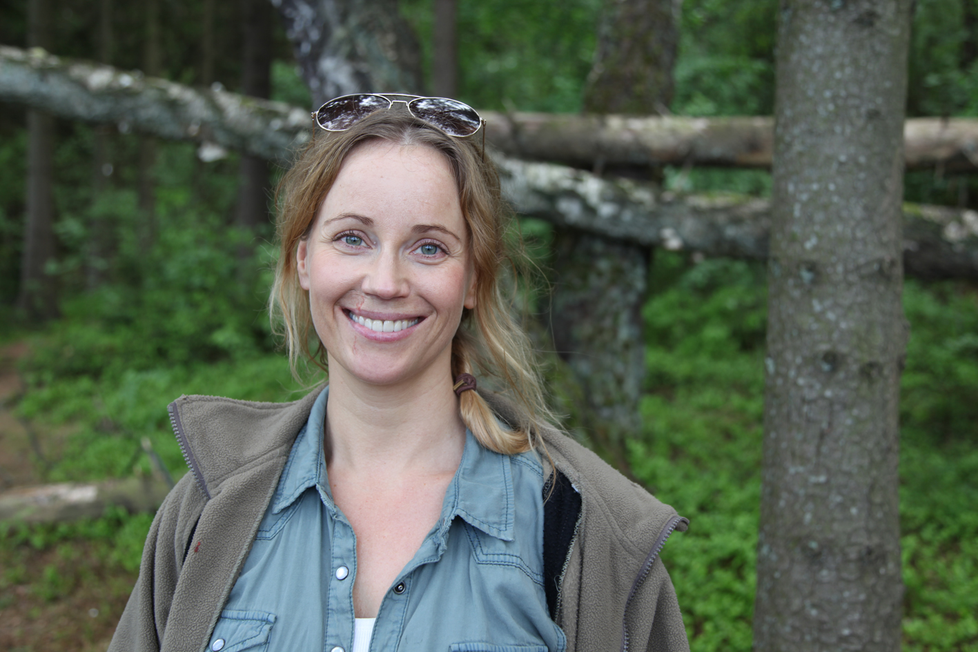 Sofia Helin, 2012.